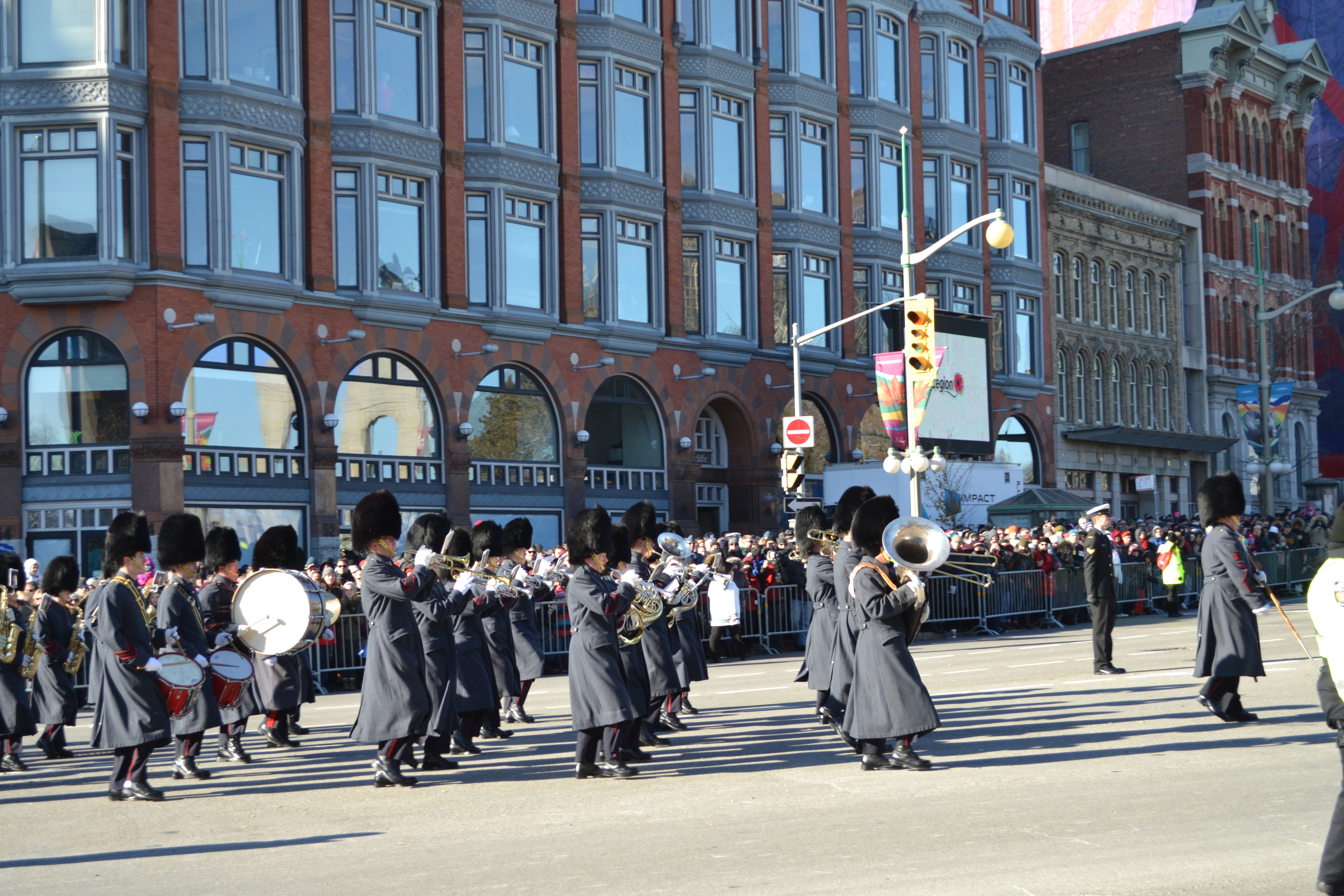 Remembrance Day 2017 in Ottawa, Canada